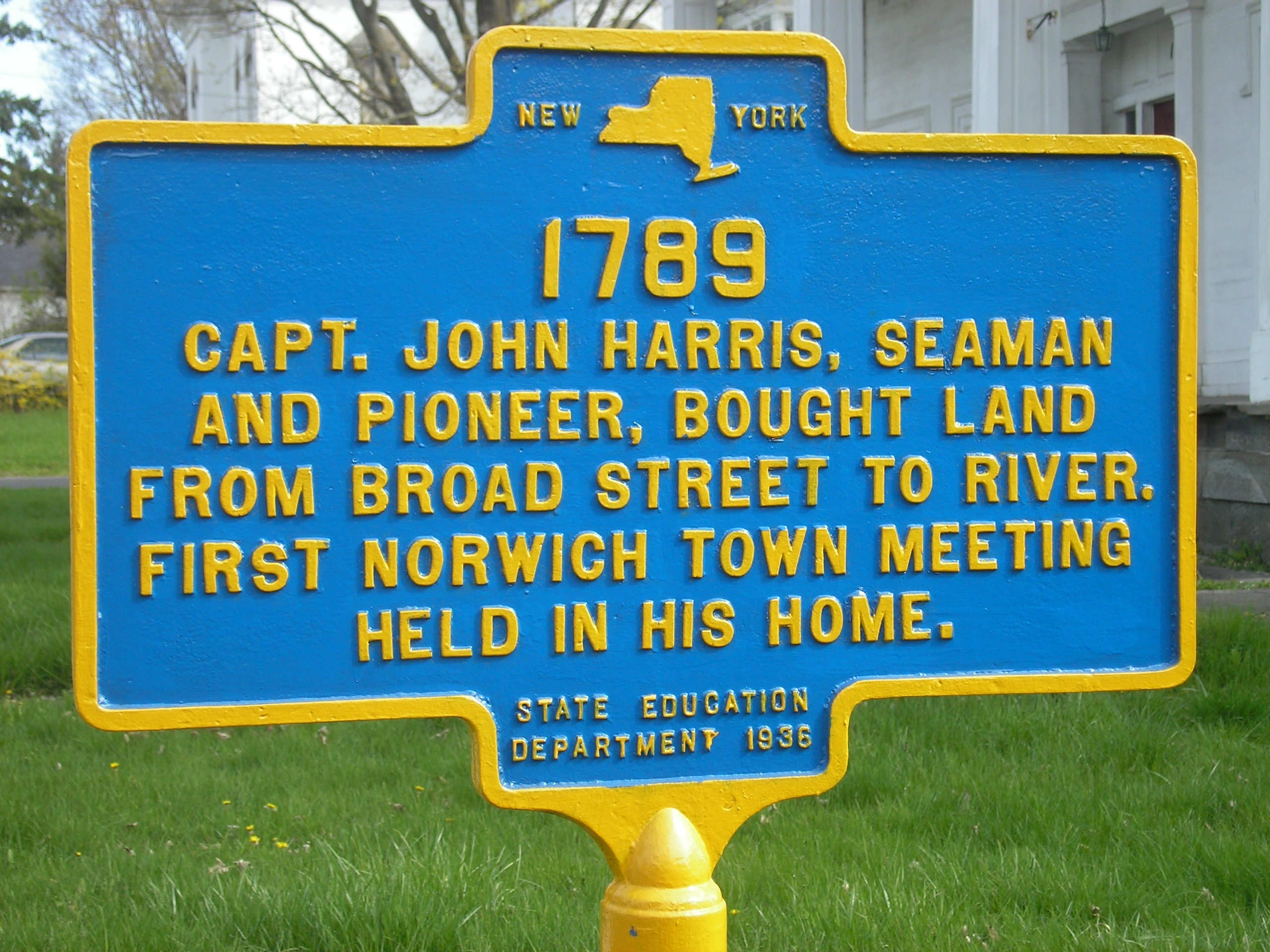 Historic marker of Captain John Harris, Norwich, NY